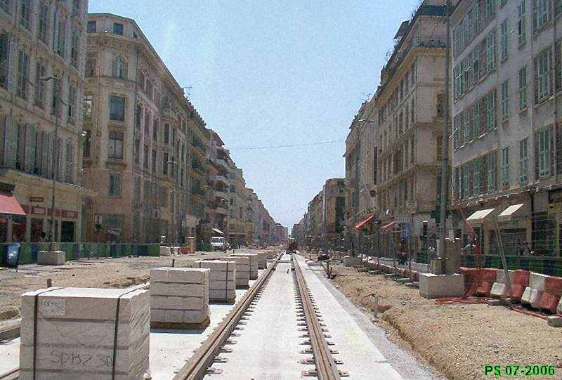 Nice-Avenue Jean Medecin. Direction sud